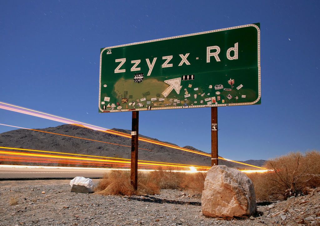 Zzyzx Road at dusk in the Mojave Desert, California, United States, Exit 239 on westbound side of Interstate 15, view to the southwest. This defaced sign has since been replaced.